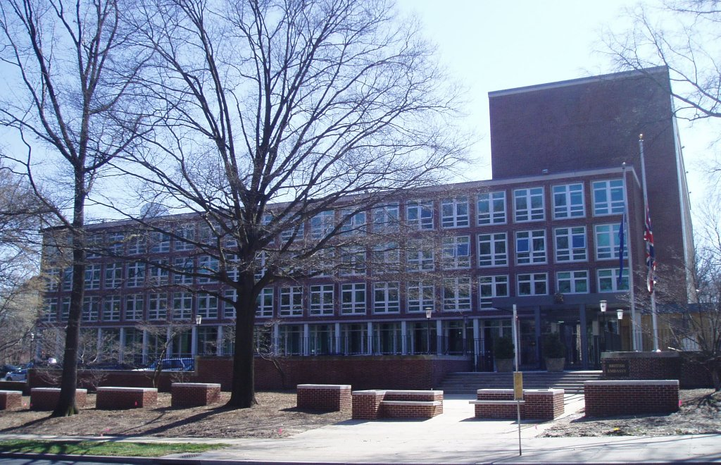 Embassy of the United Kingdom in Washington, D.C.